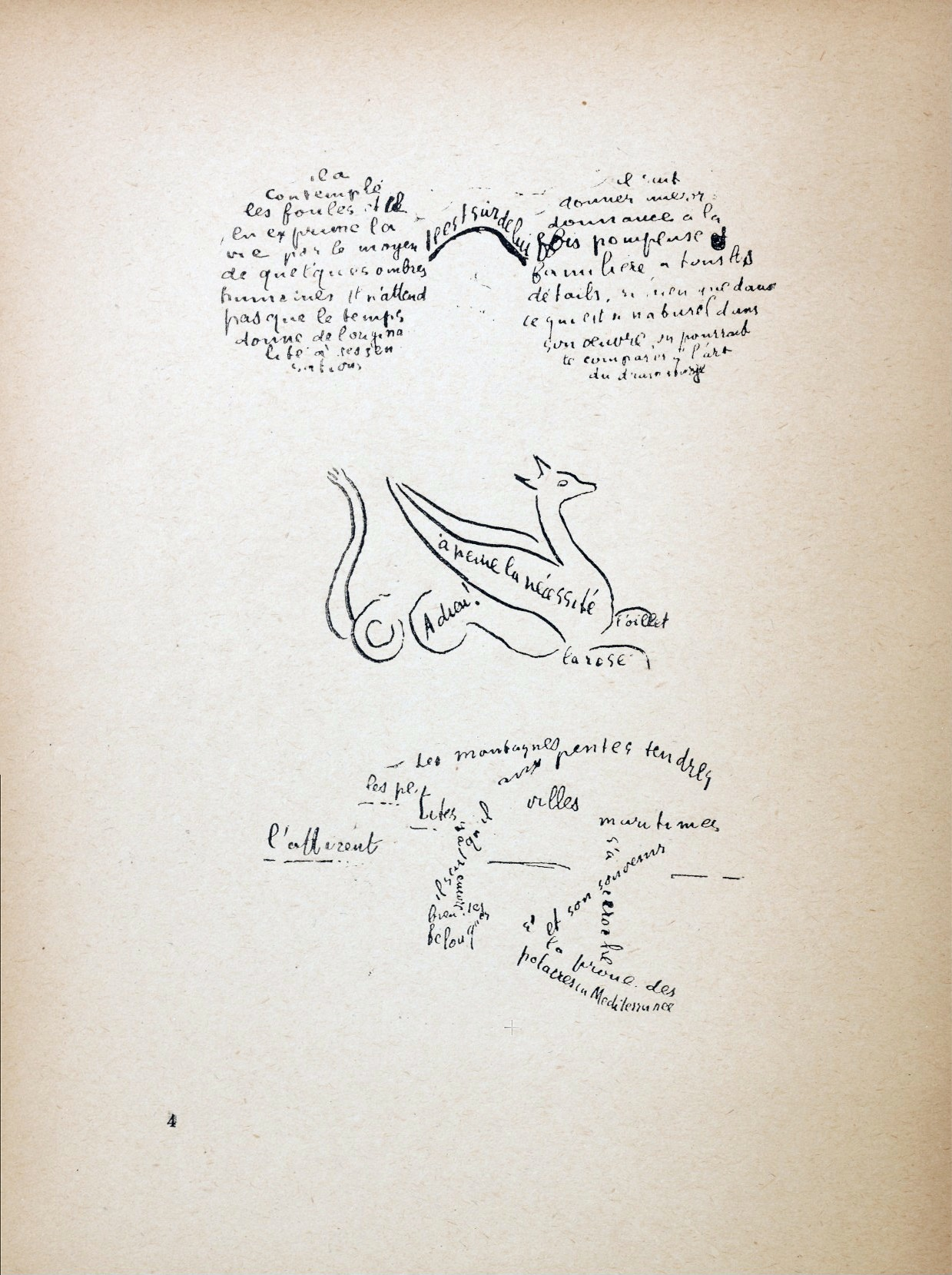 Guillaume Apollinaire (1880–1918), Calligram